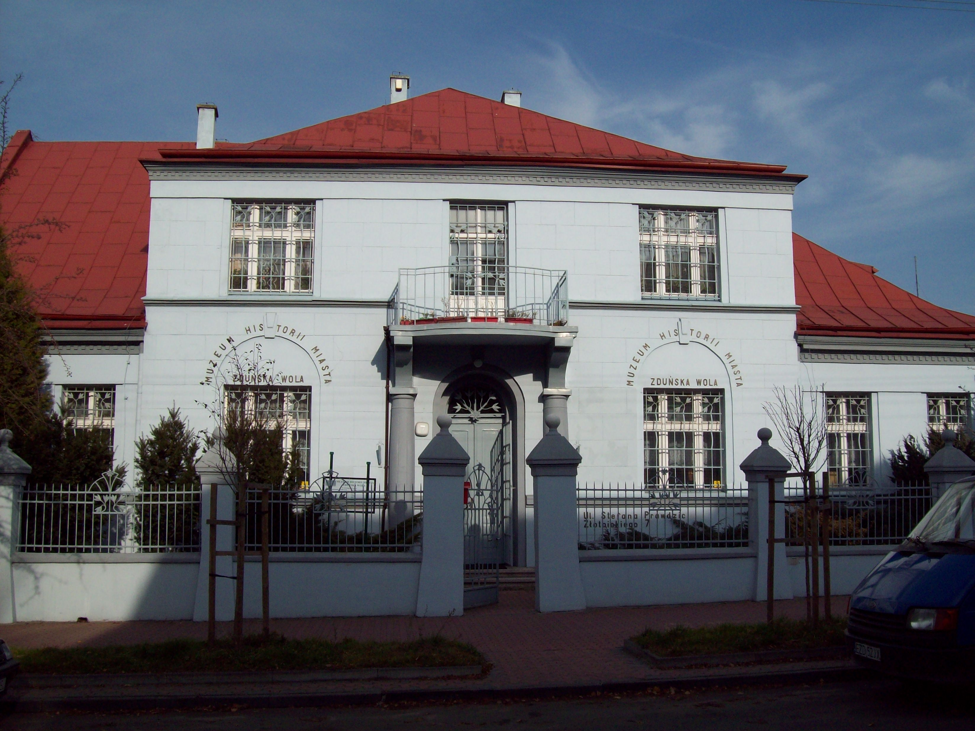 City museum in Zdunska Wola